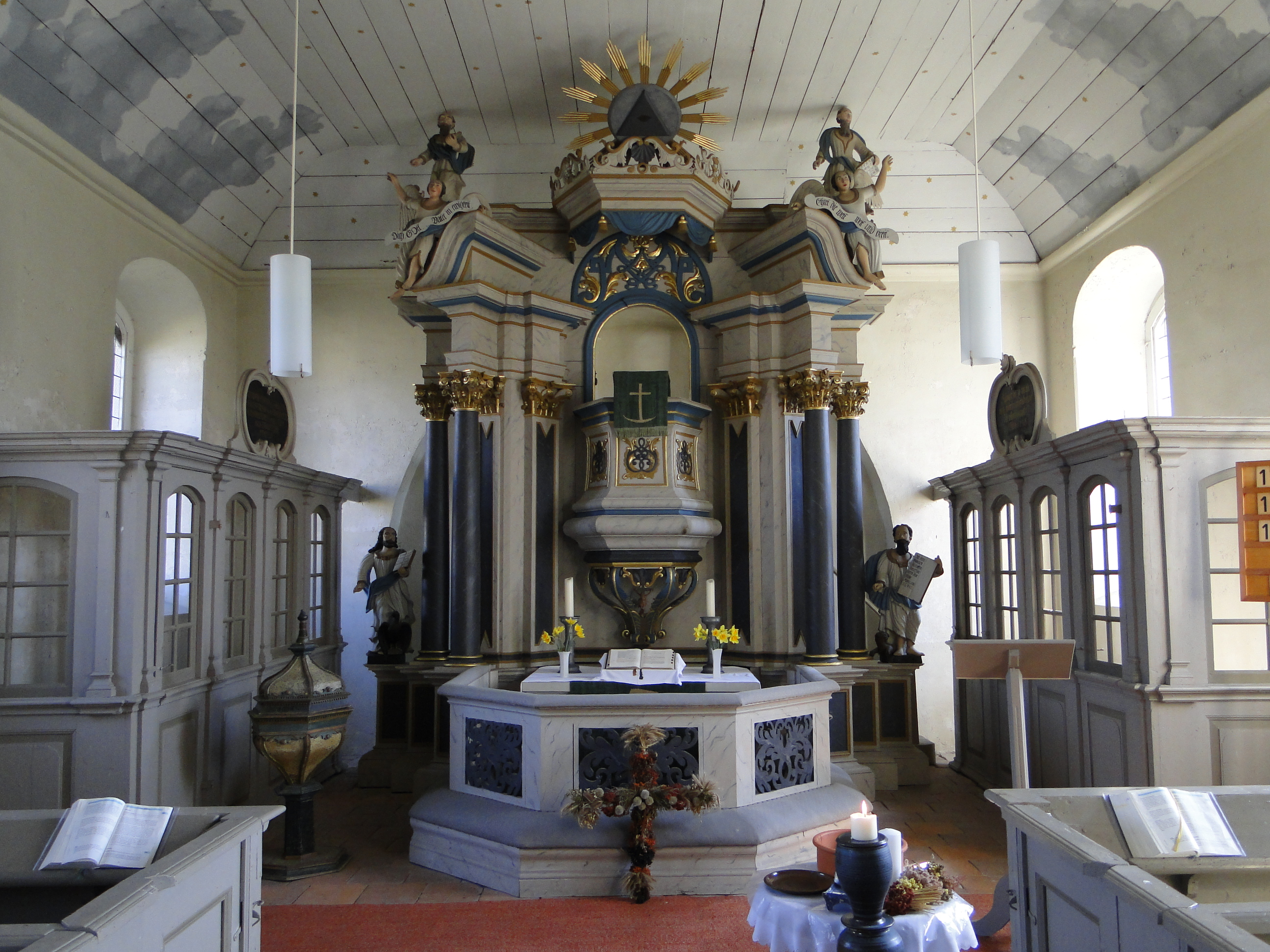 Church in Diemitz, disctrict Mecklenburg-Strelitz, Mecklenburg-Vorpommern, Germany